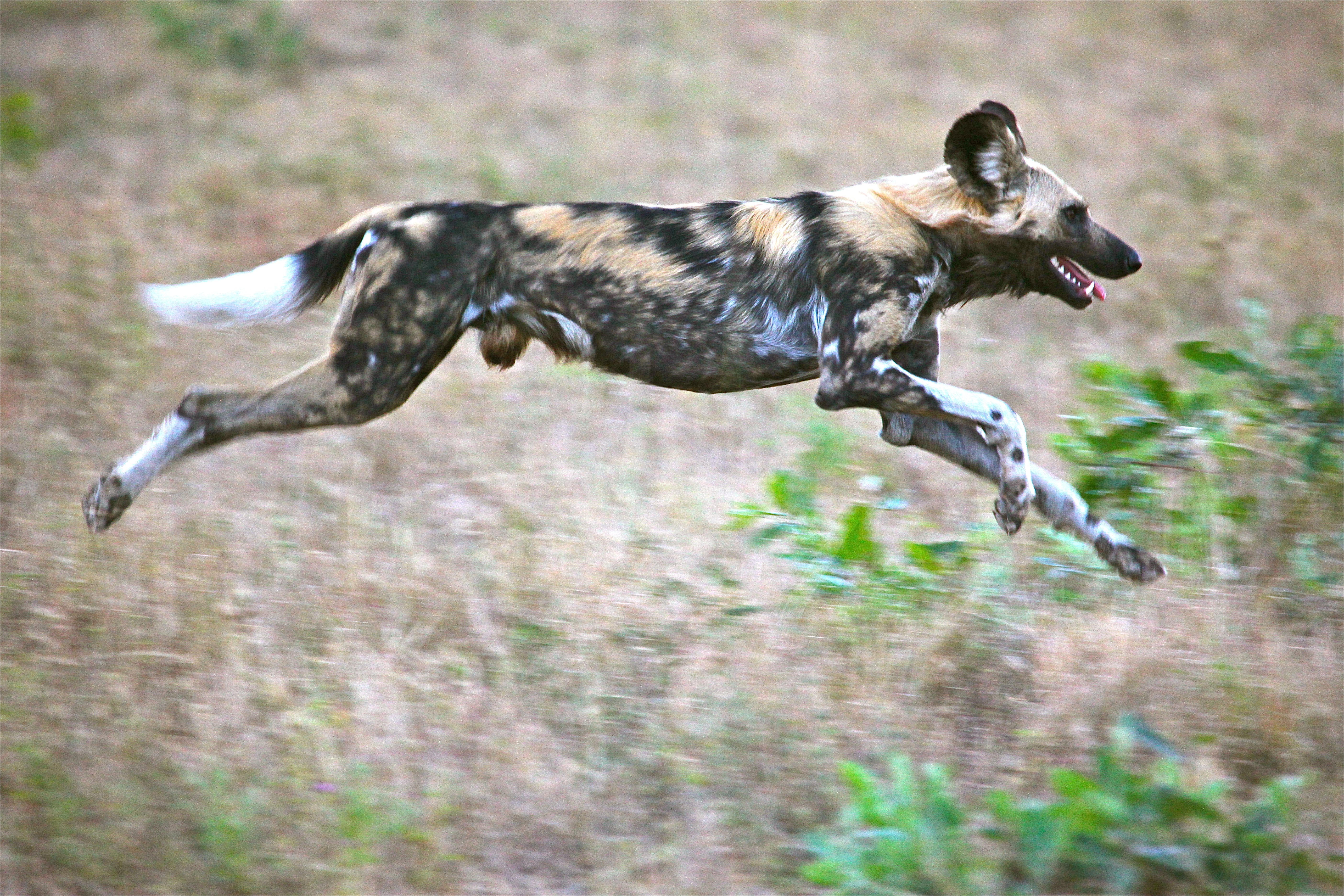 At full stride, an uncropped photo at dusk, when the pack in South Africa comes alive from a day of rest and weaves through the bush at full tilt, like a sudden breeze that surrounds you and then slips through the trees to disappear in the blink of an eye. They run at 65 km/hr to exhaust their prey, and they rarely fail (with a 90% success rate versus 30% for lions). They just keep running until the prey is caught. No two have the same coat pattern. The tail serves as a flag so each can keep a peripheral view of the rest of the pack in the tall grass.